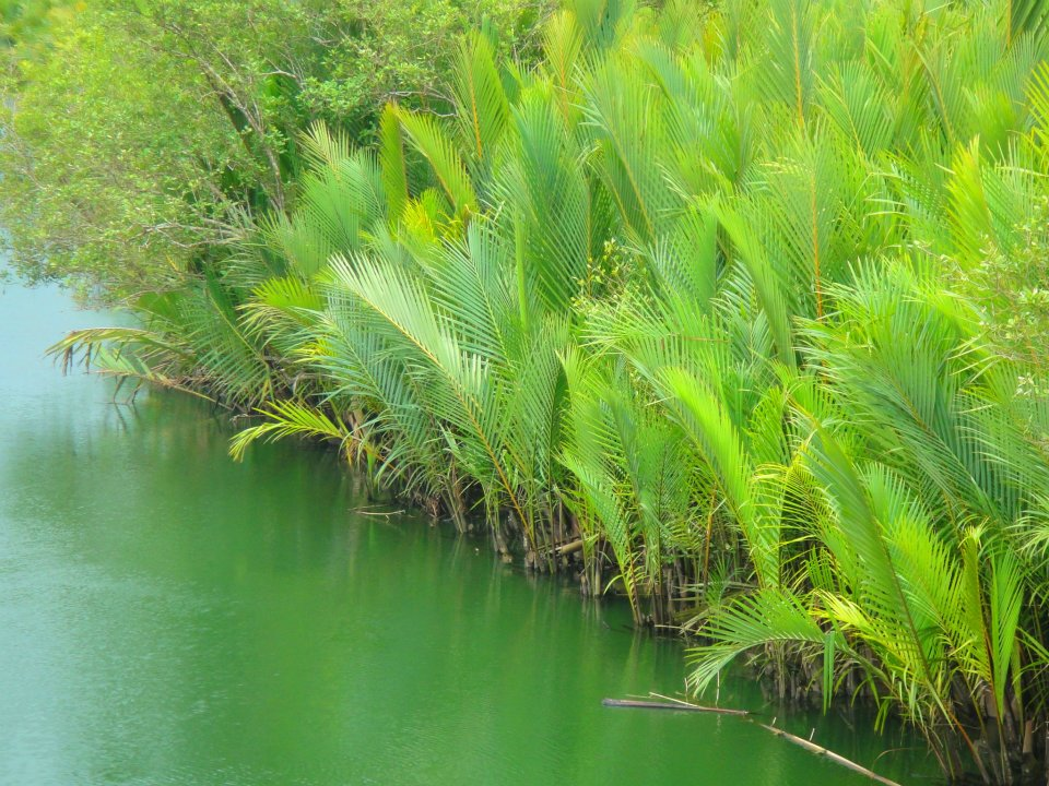 Nipa palms (Nypa fruticans) in Bohol, Philippines.